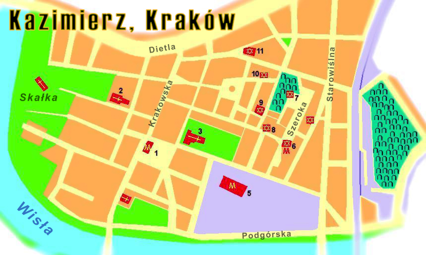 Map: Kazimierz (district of Kraków), Poland . I made it myself. --Kpalion 18:37, 23 Apr 2004 (UTC)